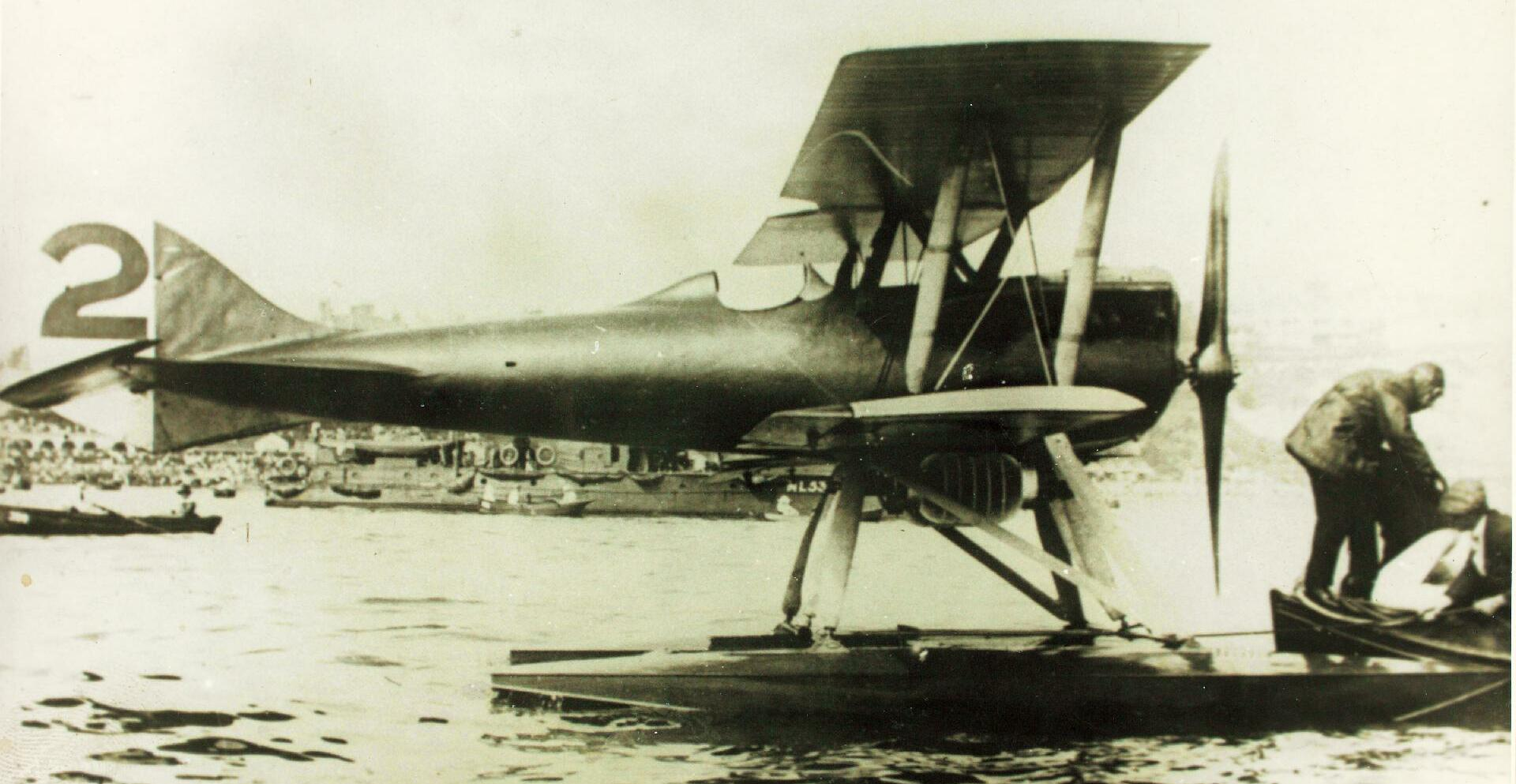 Nieuport-Delage 29SHV Schneider racer